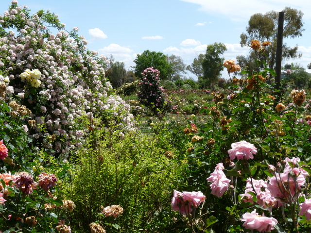 A view of Ruston's Rose Garden at Renmark, South Australia